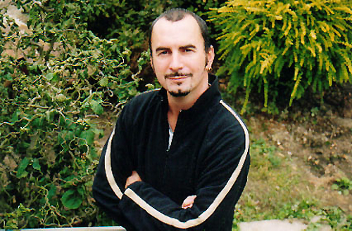 A personal photo of Mark Chadbourn.